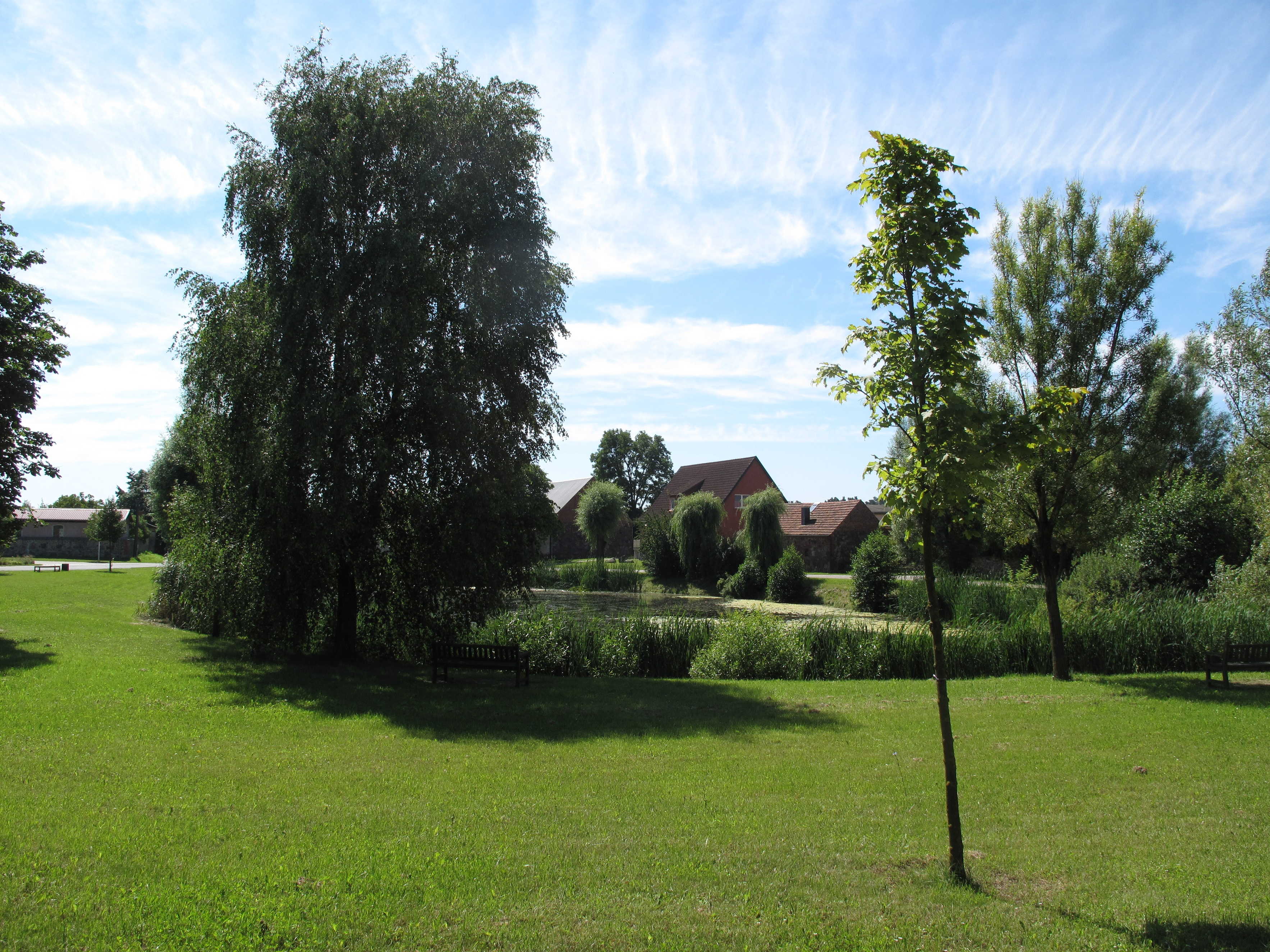 Historical village green and pond in Pritzhagen. Pritzhagen is a village of the municipality Oberbarnim in the District Märkisch-Oderland, Brandenburg, Germany. It is situated in the Märkische Schweiz Nature Park. The village green with its pond and the perimeter fieldstone-walls was extensively renovated in 2004.